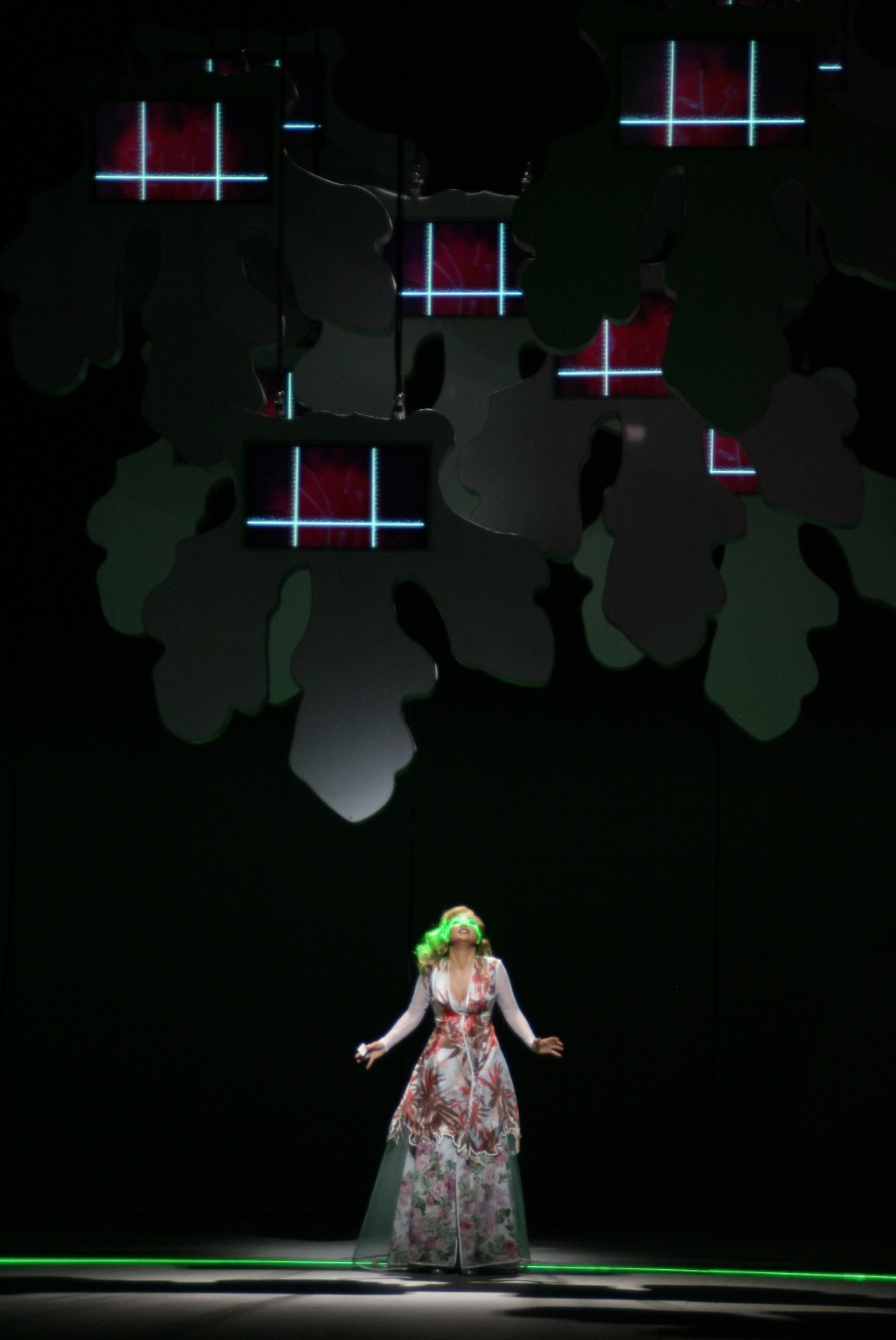 Laura Aikin (Diana). Scene from Francisco Negrin's production of Vicente Martín y Soler 1787 opera L'arbore di Diana. Gran Teatre del Liceu, Barcelona 2009. Photo by Ariane Unfried